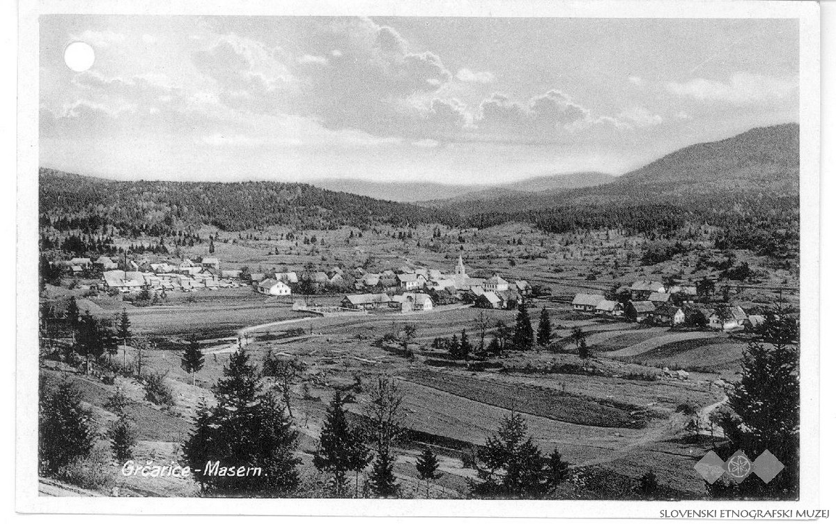 Postcard of Grčarice